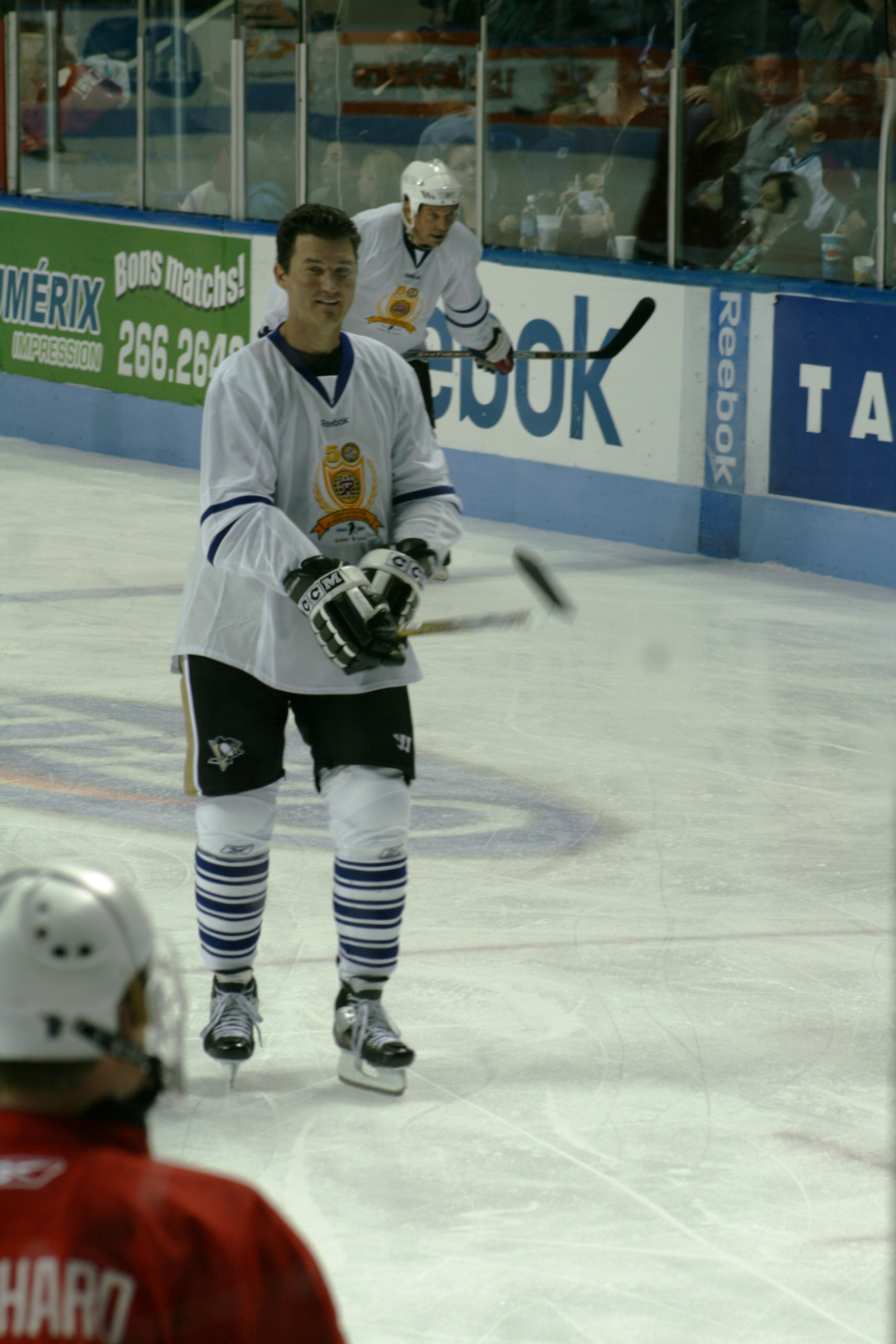 Mario Lemieux playing at the Legends Games for the 50th edition of the Quebec International Pee-Wee Tournament.